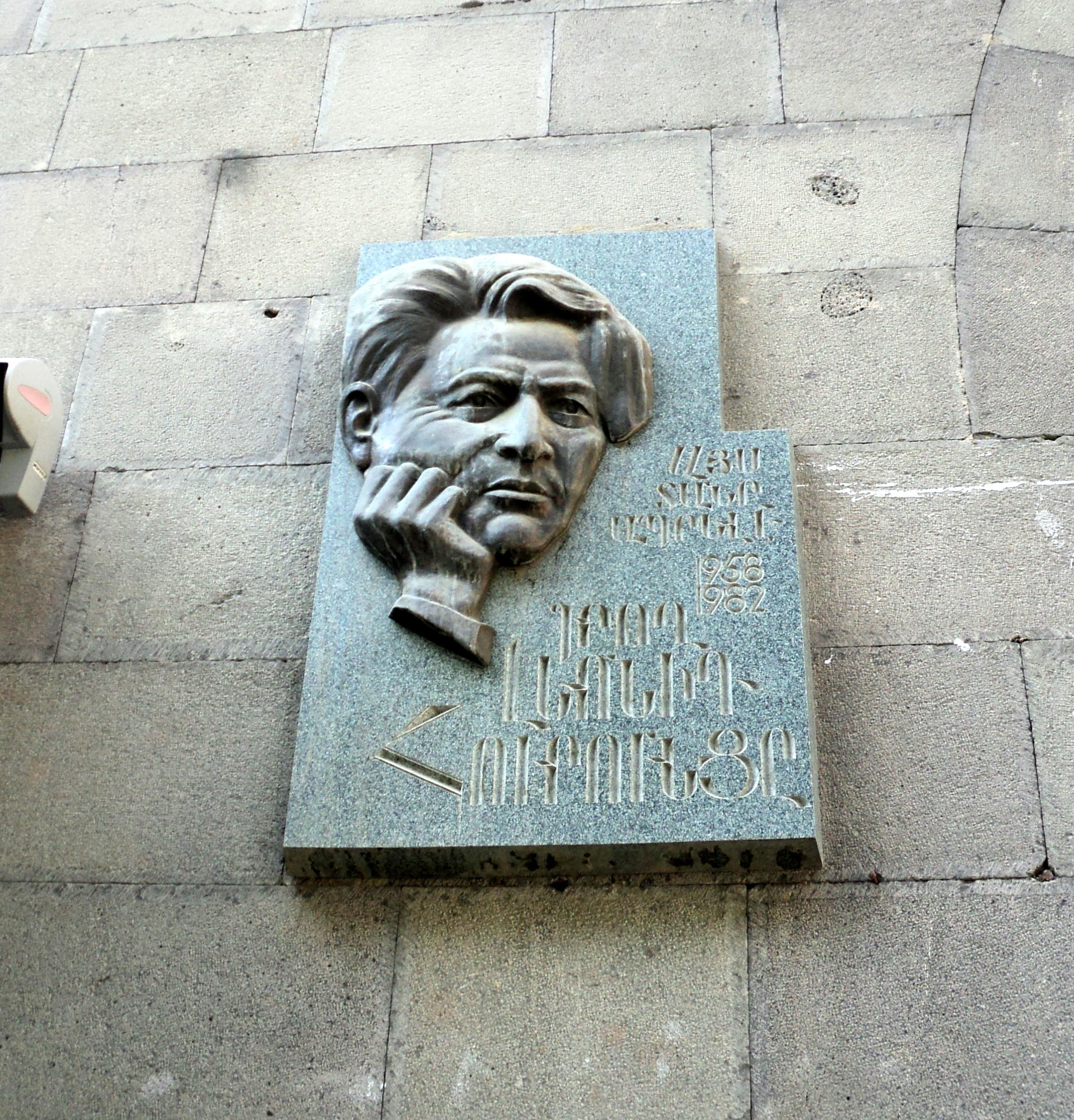 Leonid Hourunts plaque in Yerevan, Zoryan street